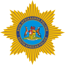 Badge of the South African Police (1981-1994)